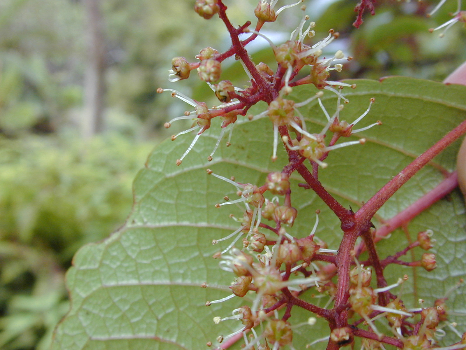 Perrottetia sandwicensis (flowers). Location: Maui, Makawao Forest Reserve